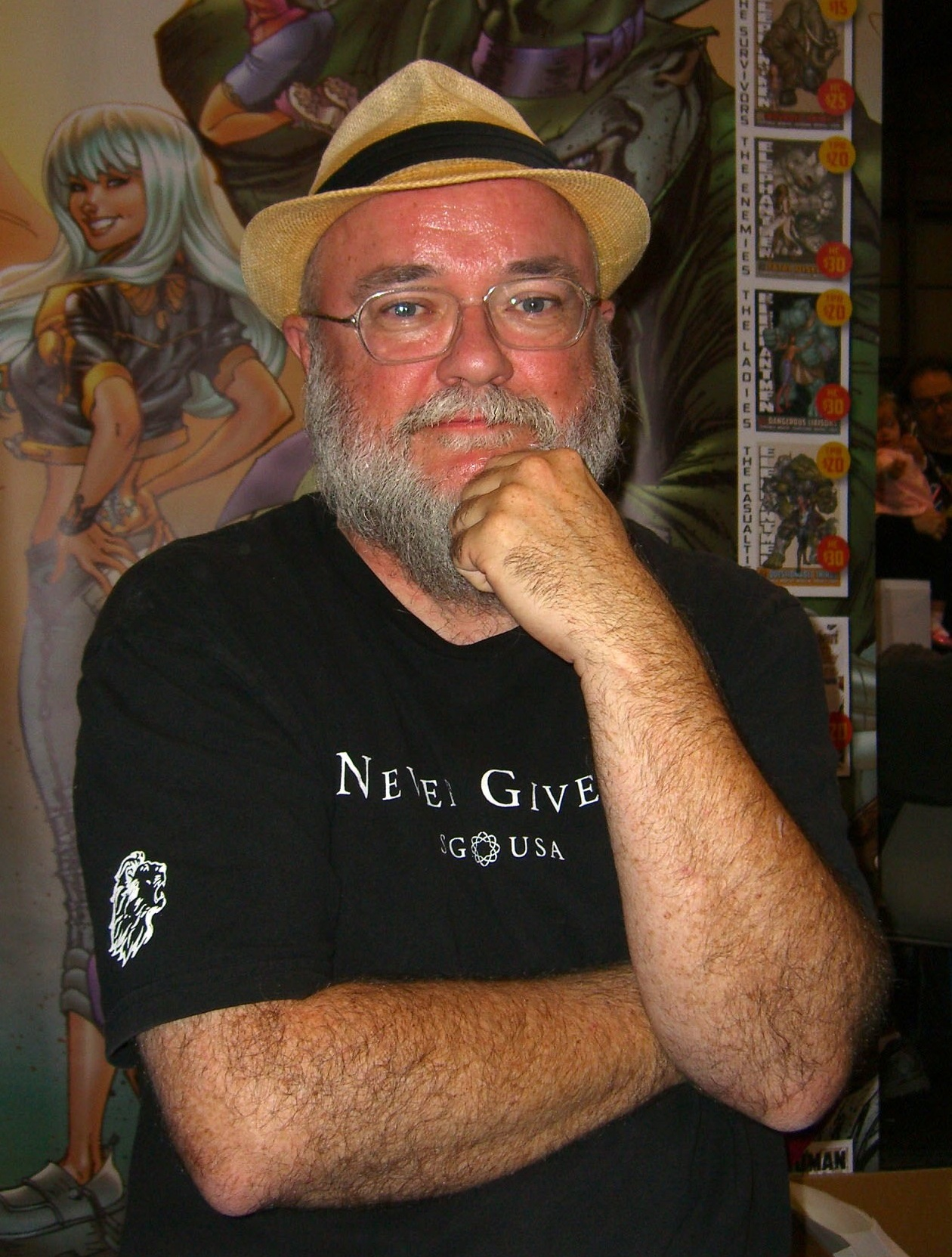 Comics creator Richard Starkings during an October 16, 2011 appearance at the New York Comic Con in Manhattan. This photo was created by Luigi Novi. It is not in the public domain, and use of this file outside of the licensing terms is a copyright violation.